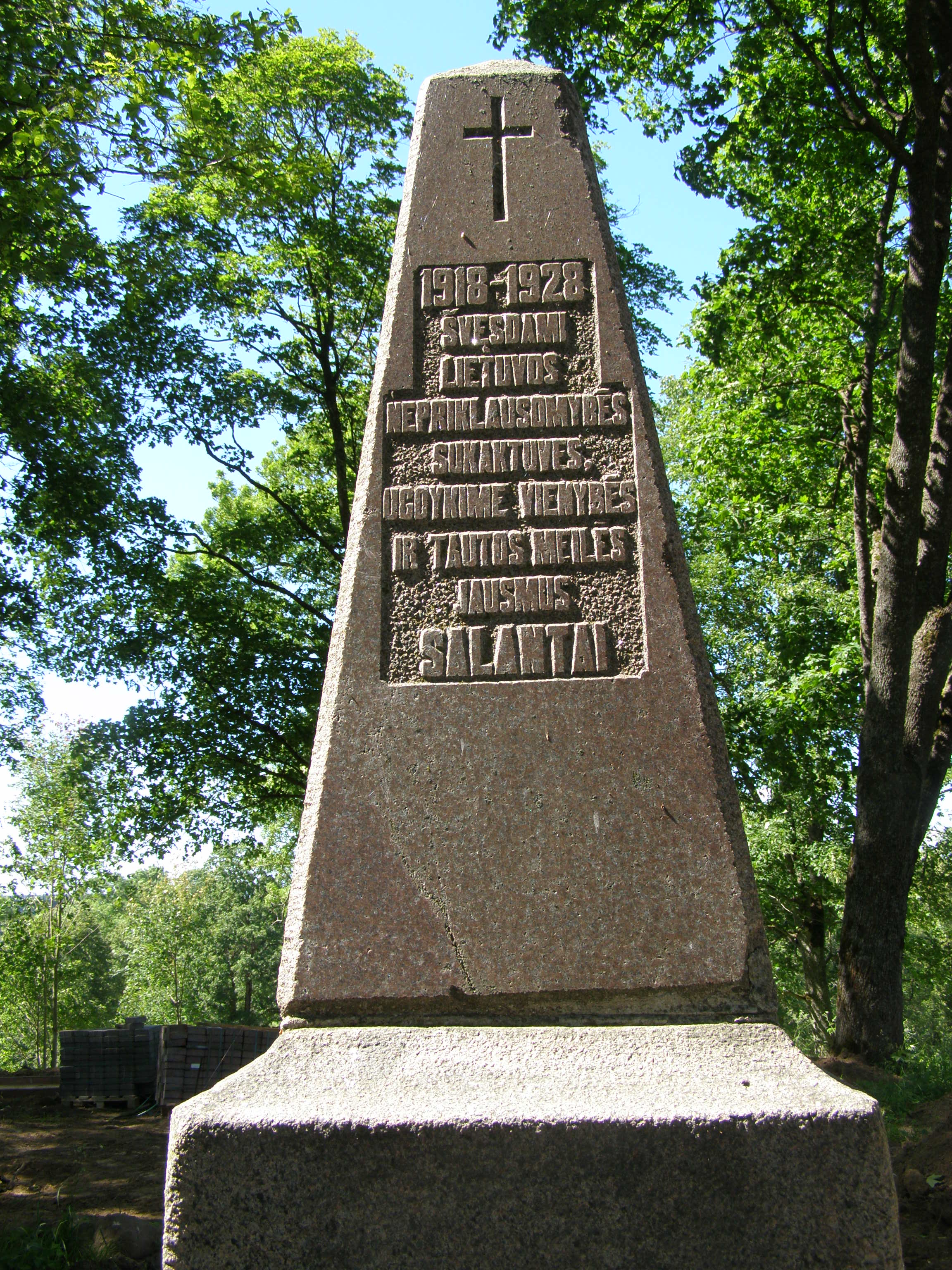 Lithuanian Independence Monument, Salantai, Kretinga district, LithuaniaLietuvių: Lietuvos nepriklausomybės 10-mečio paminklas, Salantai, Kretingos rajonas, Lietuva